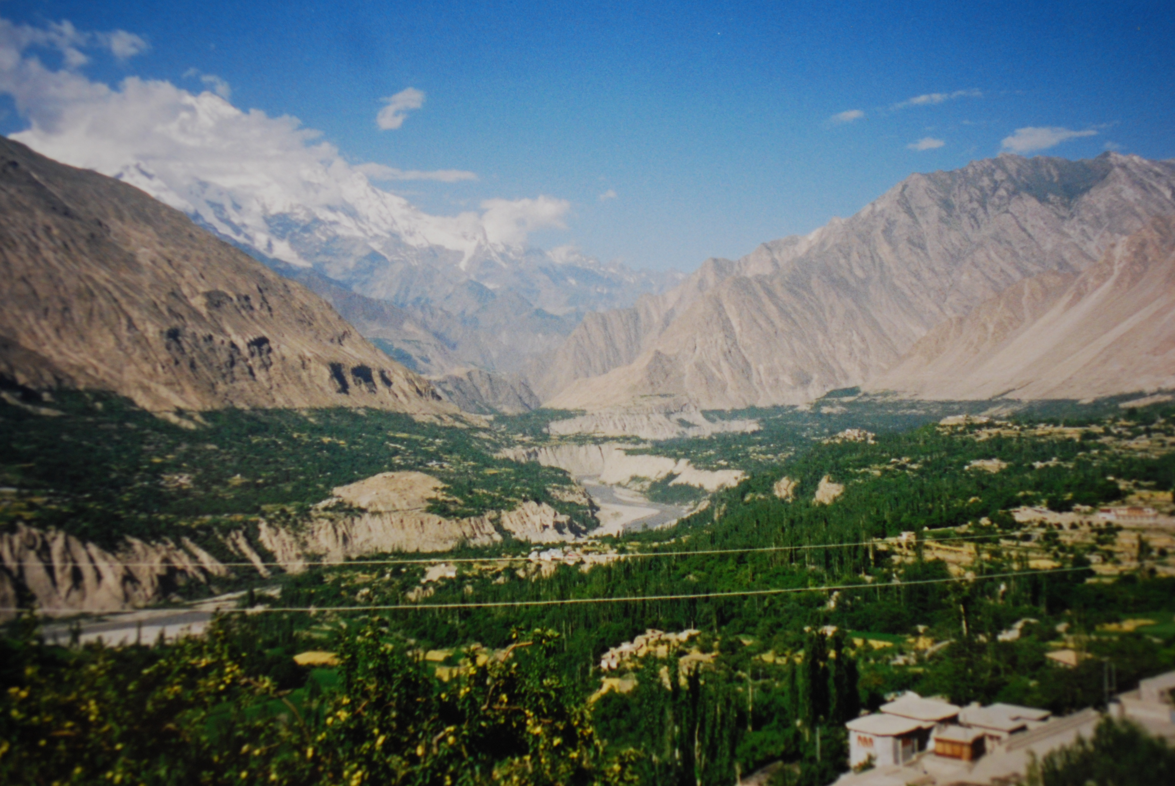 hunza valley,hunza river,Mt.rakaposhi,karimabad,northern areas,pakistan